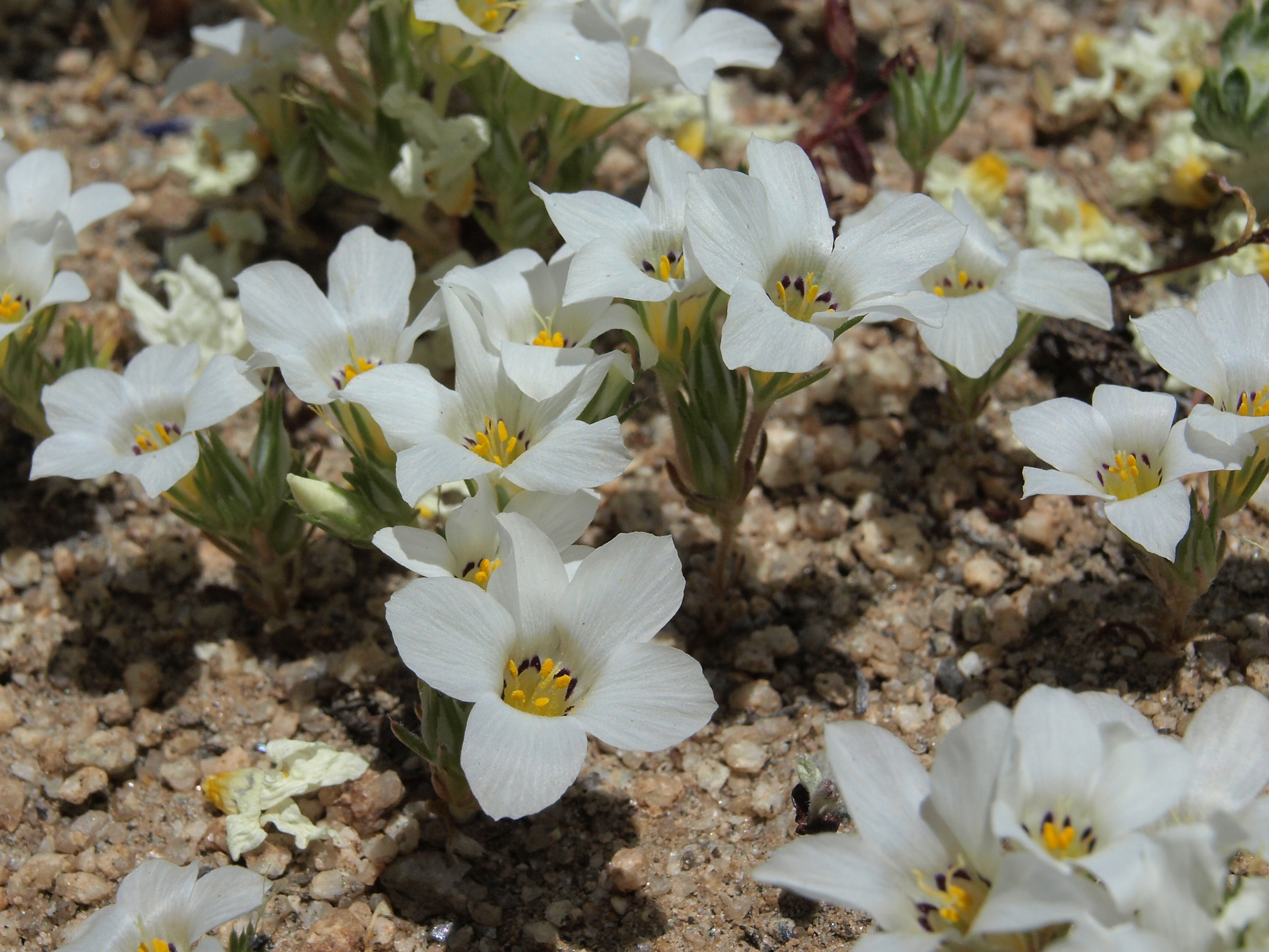 sand blossoms, Linanthus parryae, California, Glass Mountain, Benton Crossing Road, Owens Valley drainage, elevation 2228 m (7310 ft). One of those amazing desert annuals whose flowers outweigh the rest of the plant! Any of you familiar with this species will understand my astonishment at finding a healthy population of it this far north, and at apparent record-high elevation. Researching further, it has been found slightly farther north, in the Benton area of Mono County, but not this high. The population here was entirely of the white flowered form. The species also has a gorgeous blue-flowered form, and sometimes the two grow mixed, for example in Indian Wells Valley of the western Mojave Desert. Other than this narrow northward extension up the Owens Valley corridor into the Great Basin, the species is endemic to the western Mojave Desert, southern Sierra Nevada, southern San Joaquin Valley, and adjacent mountain foothills of southern California, mostly in sandy granitic soils below about 2000 meters (6600 feet) elevation.